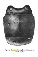 Antique Japanese chest armor dou. An okegawa style dou with bullet marks from being tested for resistance to gun fire tameshi.